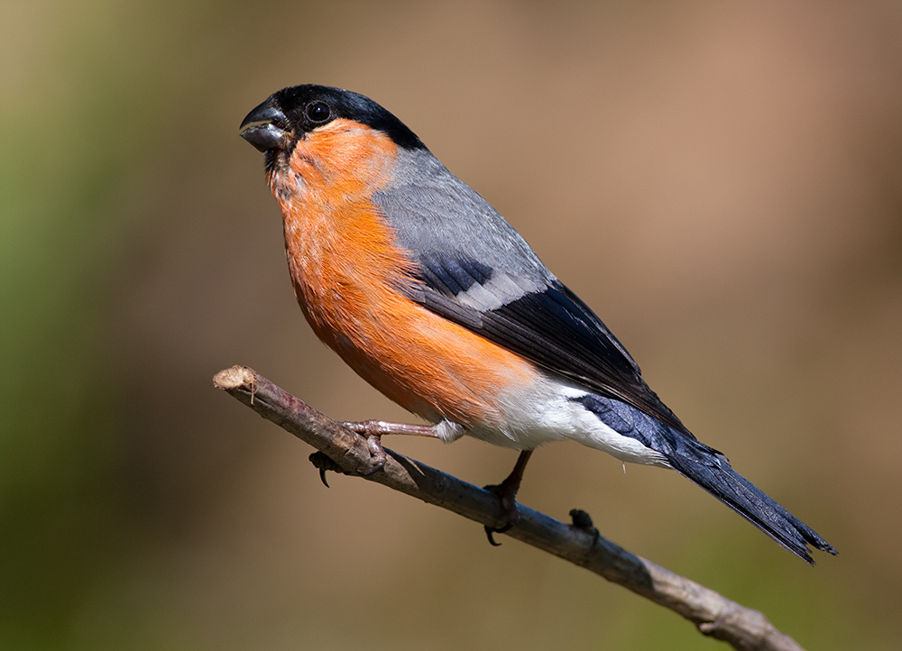 A male Eurasian Bullfinch in Lochwinnoch, Renfrewshire, Scotland.